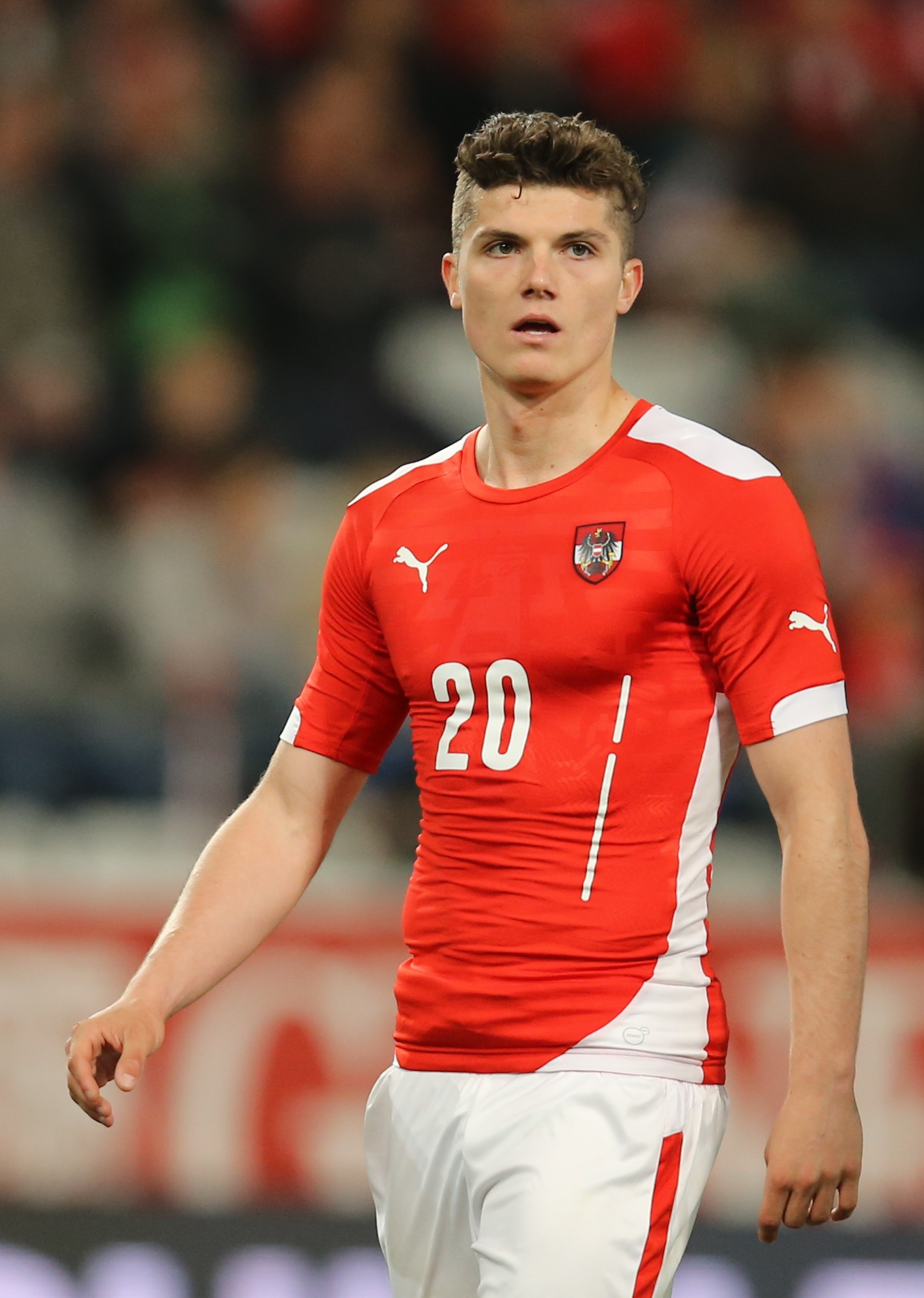 Austria - Iceland football match in Innsbruck, Austria on 2014-05-30. Austria in red, Iceland in blue.